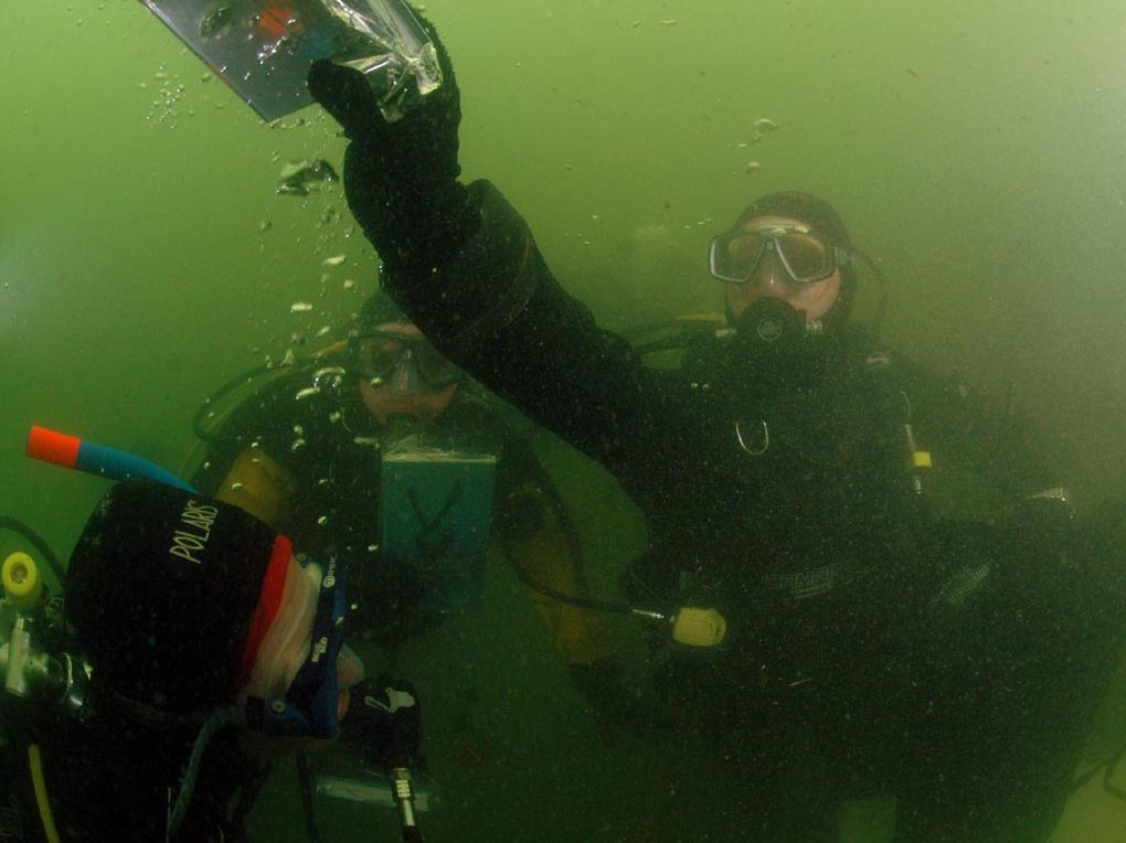 underwater pressconference for Guinness book of world records by Leo Ochsenbauer